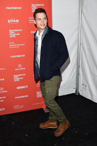 Austin Lyon at the 2016 Sundance Film Festival